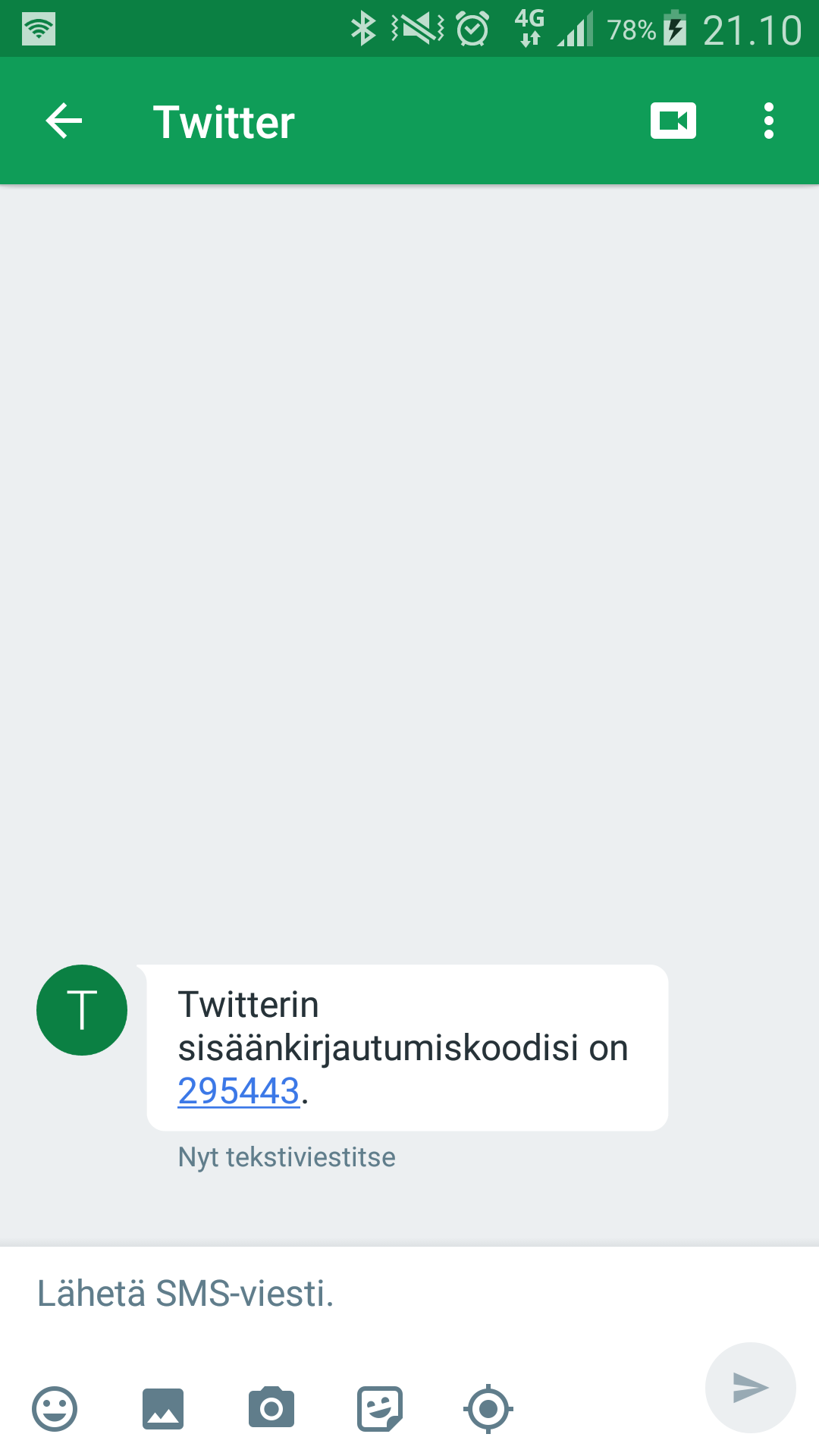 Receiving 2-factor authentication code from Twitter via SMS